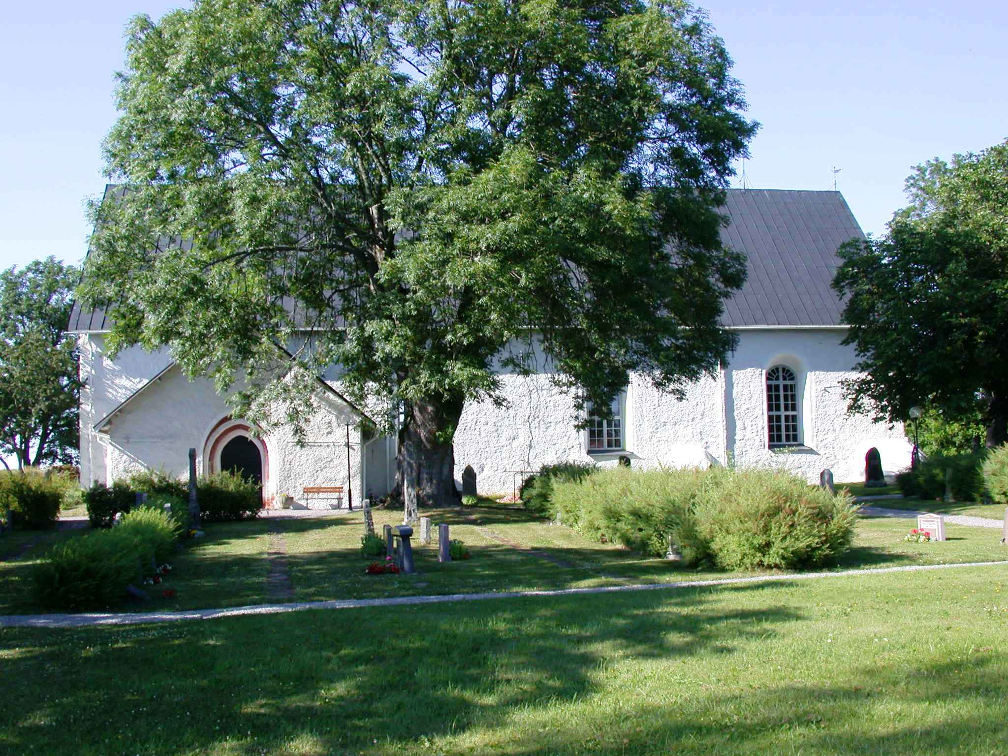 Litslena church, Enköping, Sweden. Photo by Riggwelter, July 16, 2006.